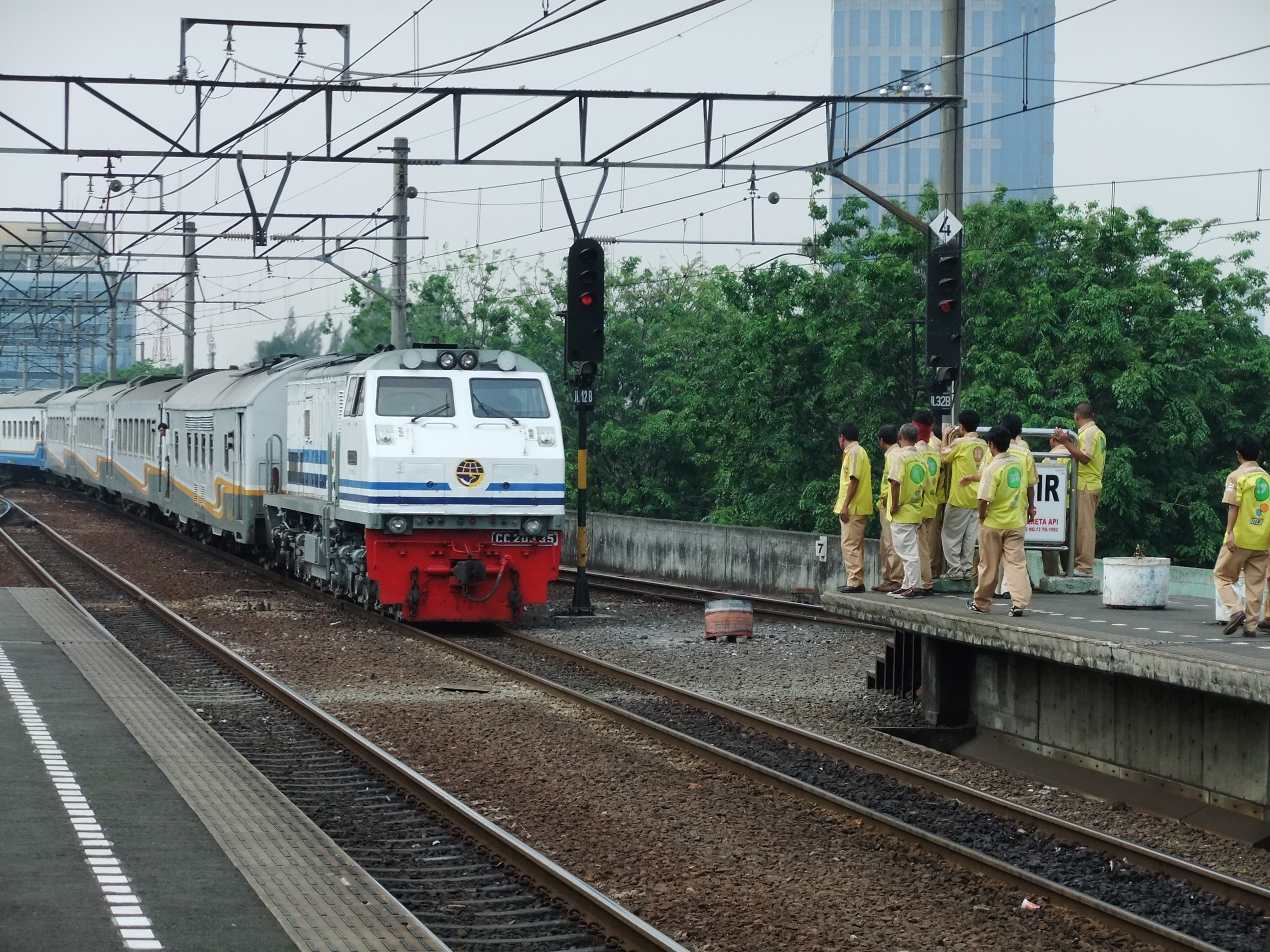 Porters and Argo Jati train from Cirebon, Gambir Station